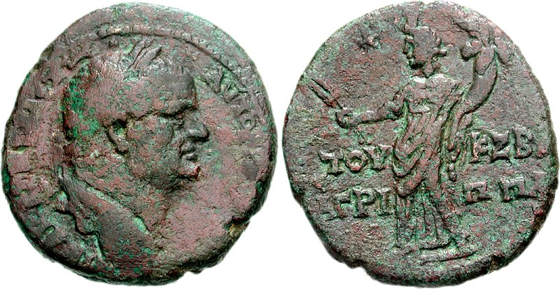 JUDAEA, Roman Administration. Agrippa II, with Vespasian. Circa 50-100 CE. Æ 28mm (15.55 g, 12h). Dated RY 27 (CE 86/7). AYTOKPA OYECPACI KAICAPI CEBACTw, laureate head of Vespasian right / Tyche standing left, holding grain ears and cornucopia; to left, star; date across field. RPC II 2283; Meshorer 166; Hendin 619. VF, green and red patina. Extremely rare, and of comparable quality to the specimens illustrated in RPC and Hendin.